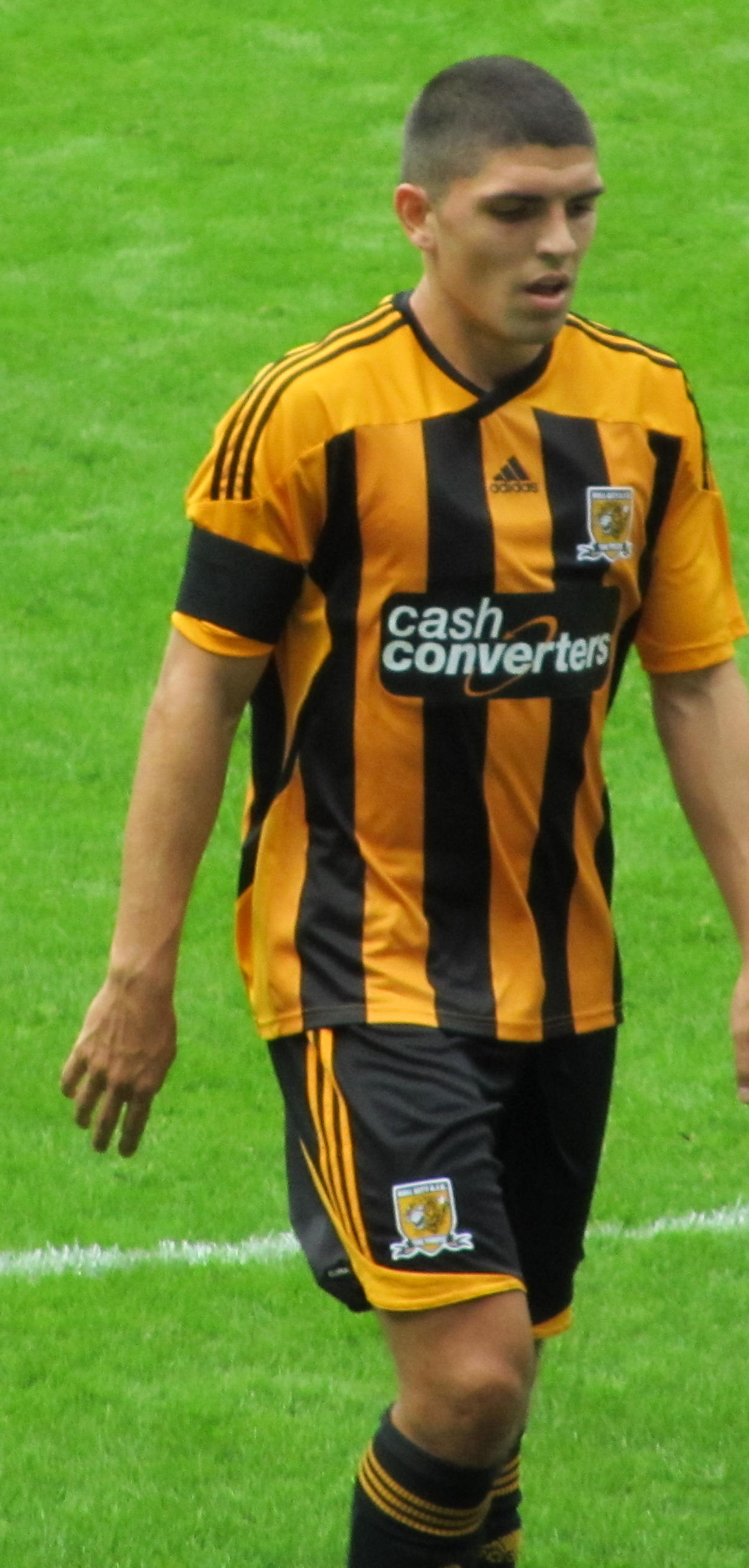 Joe Dudgeon